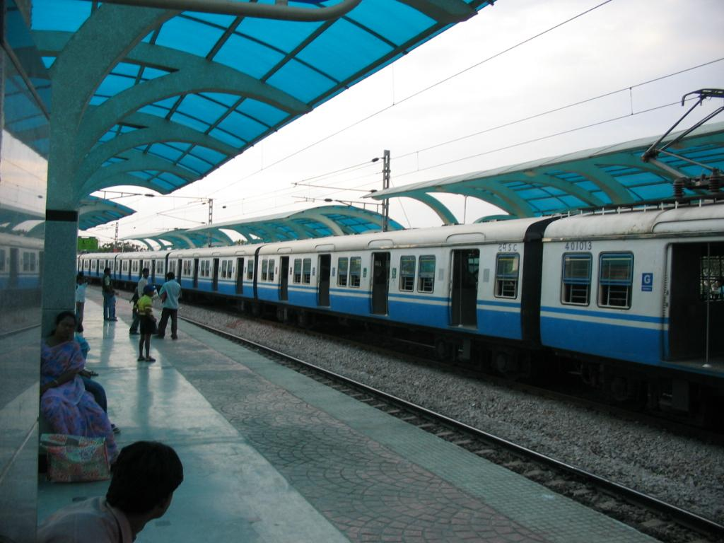 MMTS - This is an MMTS station called Necklace Road